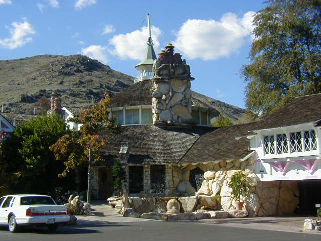 The Madonna Inn — novelty architecture hospitality in San Luis Obispo, central California. Entrance and main building, built in 1958 on old Highway 101. Photograph made by Michael C. Berch on 2000-11-11.